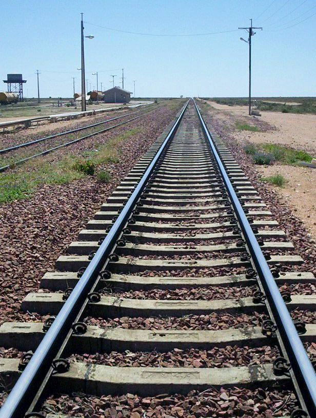 Looking east on the Trans-Australian Railway line from where the train stopped at Cook, South Australia. This stretch (478 km, 297 mi) is the longest stretch of straight track in the world.